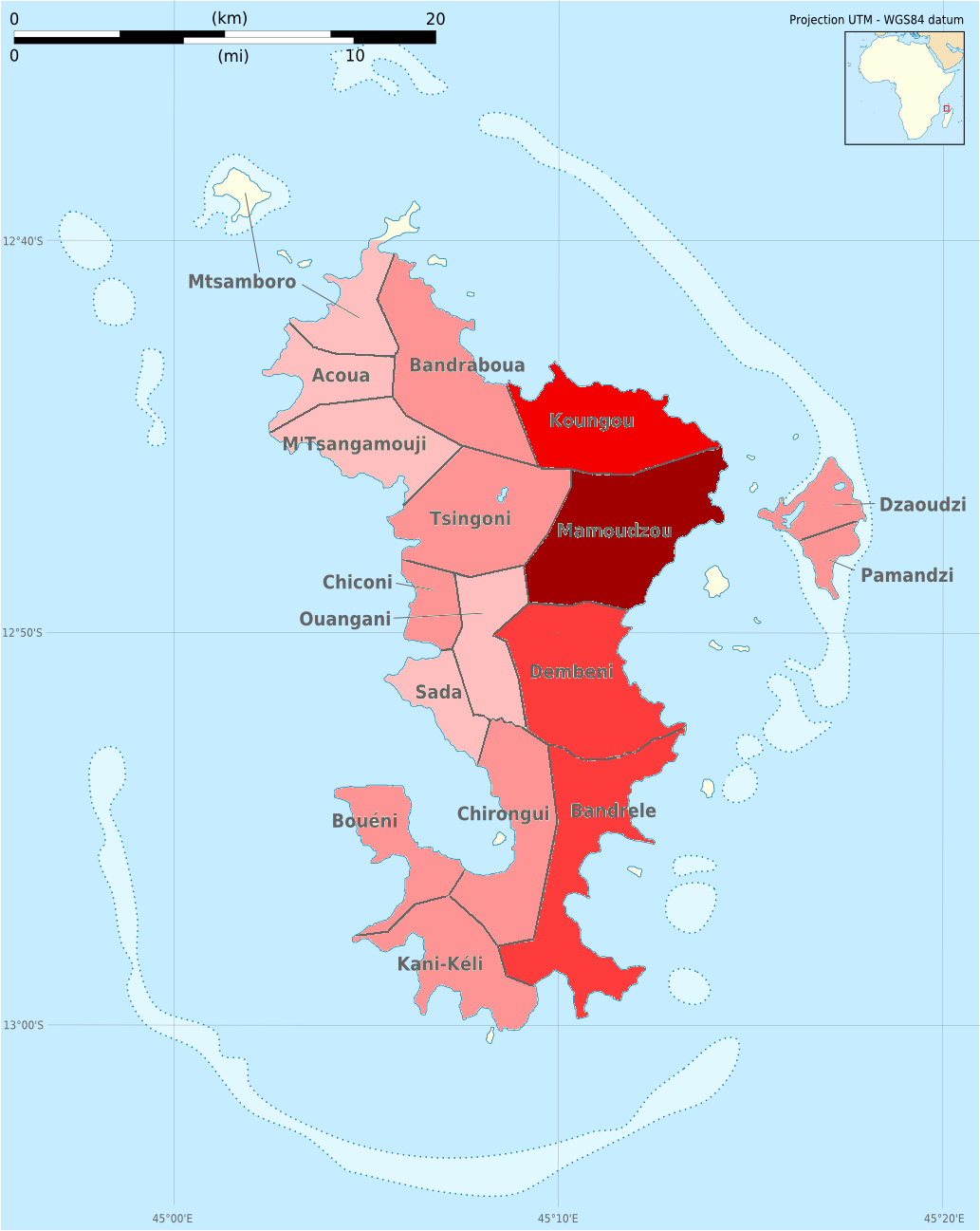 This is the current Covid 19 spread across Mayotte as of 6 May 2020